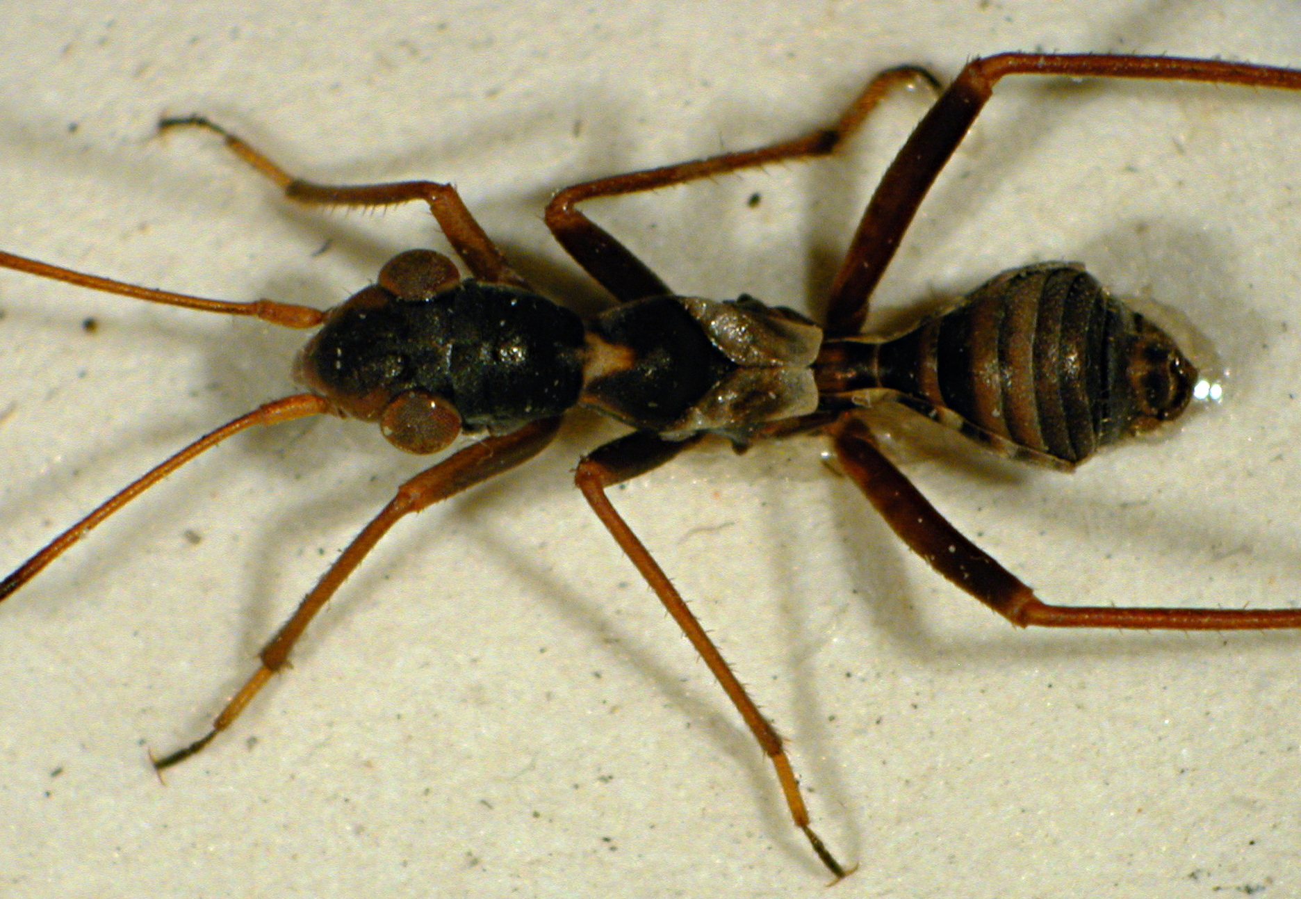 Taken in the Zoologische Staatssammlung München Myrmecoris gracilis; (R.F. Sahlberg, 1848) ♂